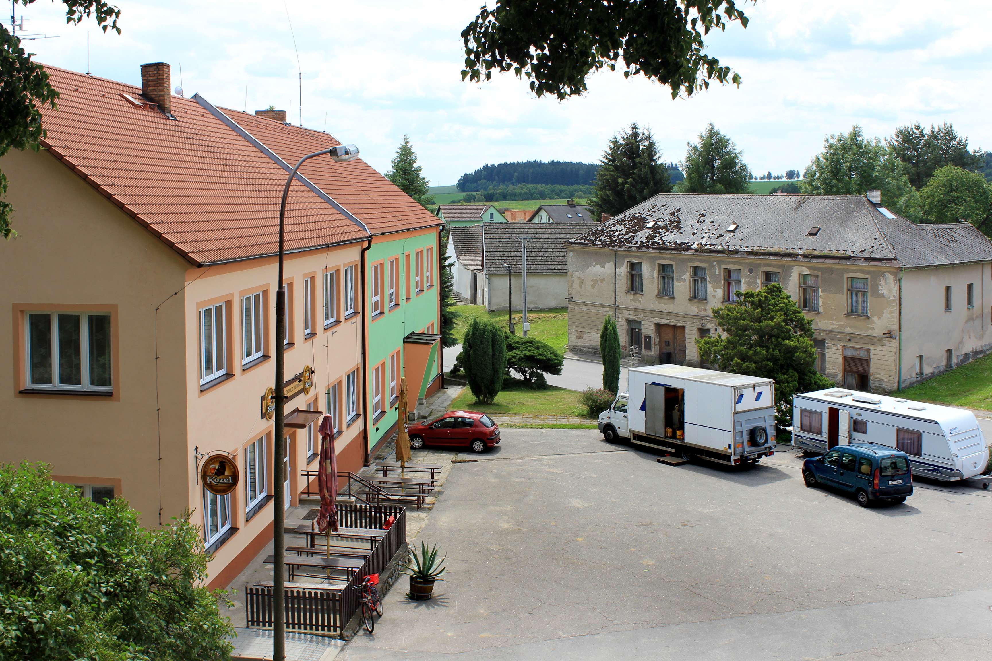 Main square in Lodhéřov, Czech Republic.